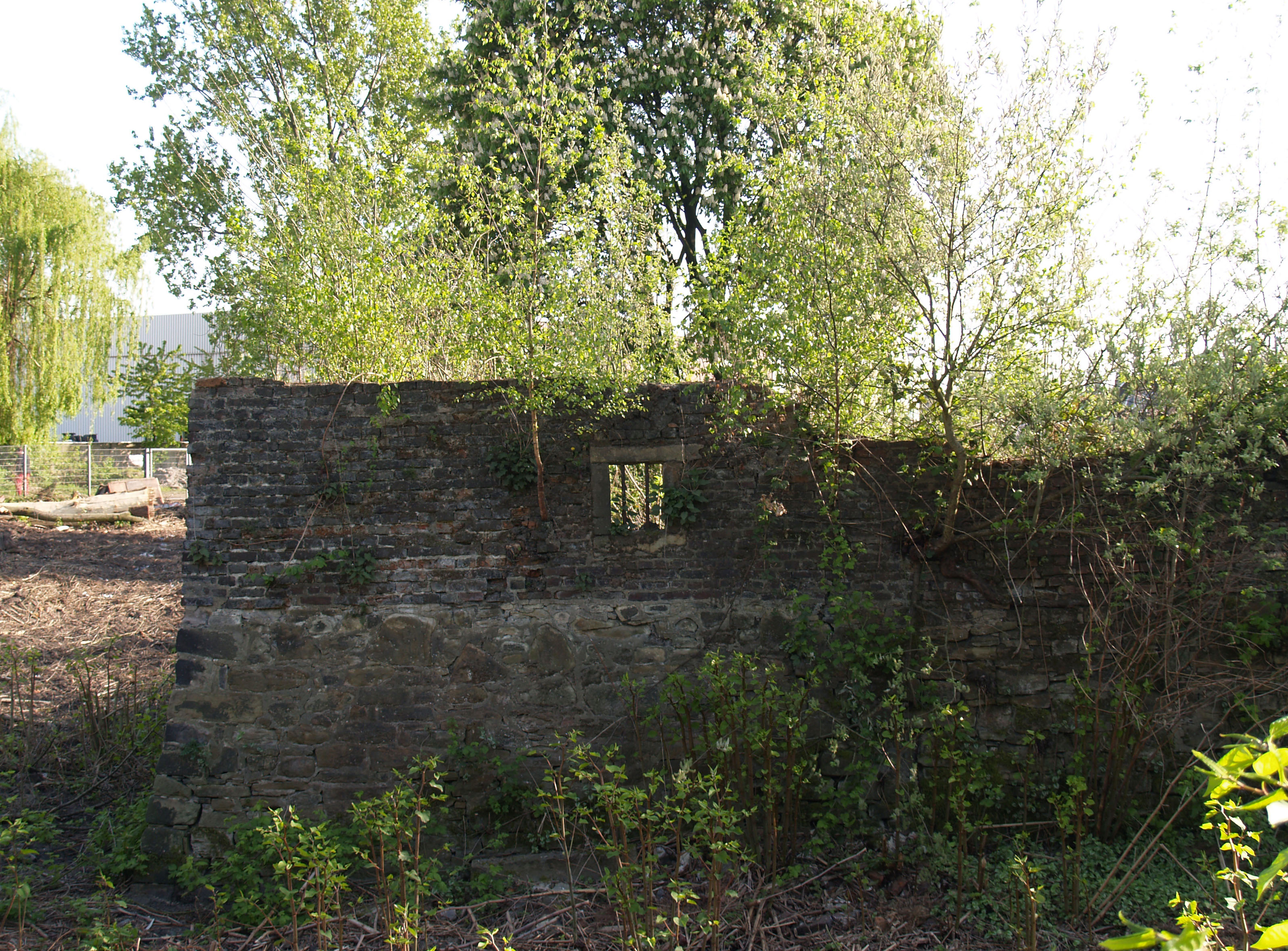 The ruin of Haus Crange in Herne, Germany